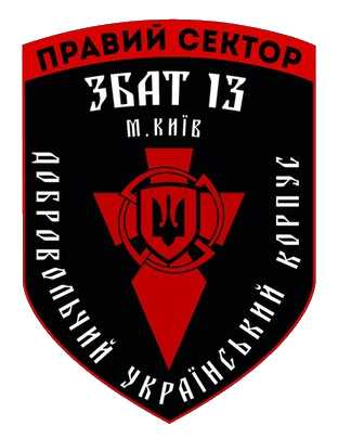 Sleeve patch of the 13th Replacement Battalion for the Ukrainian Volunteer Corps (UVC)